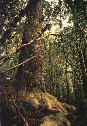 Photo of a large puriri (Vitex lucens) tree behind Ruapekapeka Pa in Northland, New Zealand. Puriri trees like this one would have been much more common before logging started in the mid 1800's. Spot the person standing next to the tree on the left hand side. He is about 1.75 m tall, so the tree is nearly 3 m in diameter and at least 10 m to the first branch.